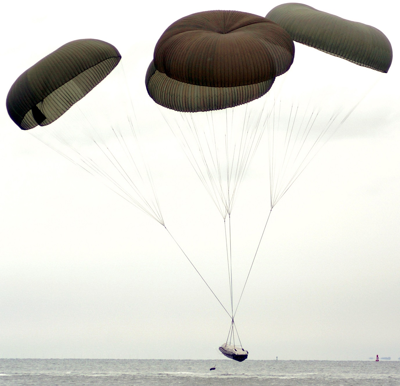 ALANTIC OCEAN (Dec. 5, 2007) A 11-meter rigid hull inflatable boat (RHIB) descends to the water off the Virginia Beach coast after a successful launch of the Maritime Craft Aerial Deployment System (MCADS). Special Warfare Combatant-craft crewmen (SWCC) and parachute riggers from Special Boat Team (SBT) 20 work together to deploy an 11-meter RHIB 3,500 feet from the rear of a C-130 during an MCADS drop. SWCCs free-fall jump after the RHIB, and prepare to get underway once they reached the water. SBT-20 is one of the few units in the world with this capability. U.S. Navy photo by Chief Mass Communication Specialist Kathryn Whittenberger (Released)